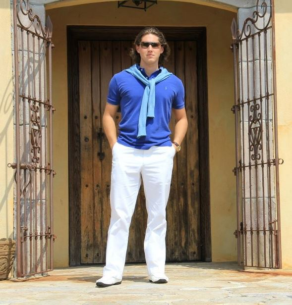 American Subculture: Example Preppy, preppie, or prep (all abbreviations of the word preparatory)